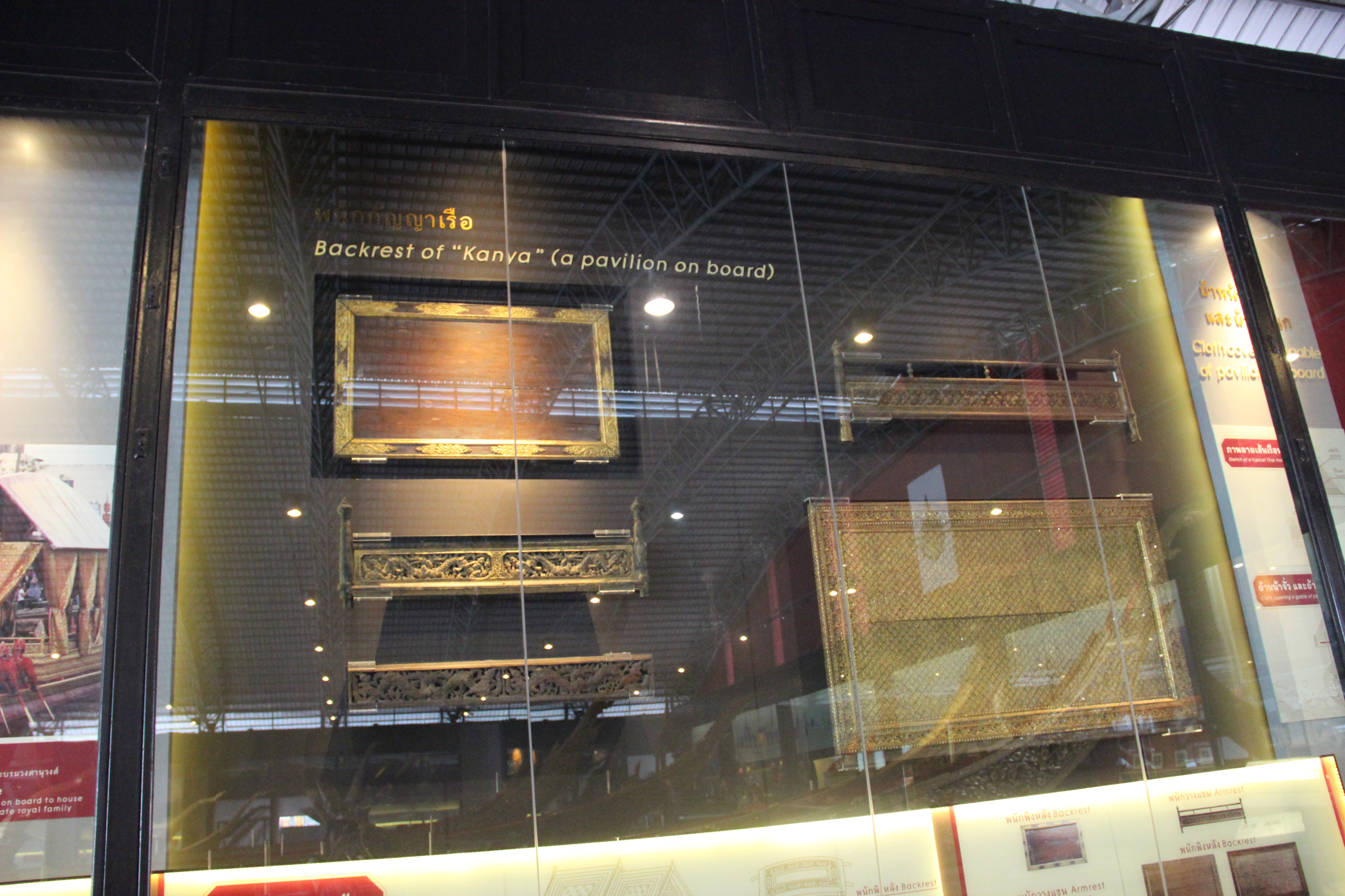 Backrest of a Pavillion on board (Kanya)